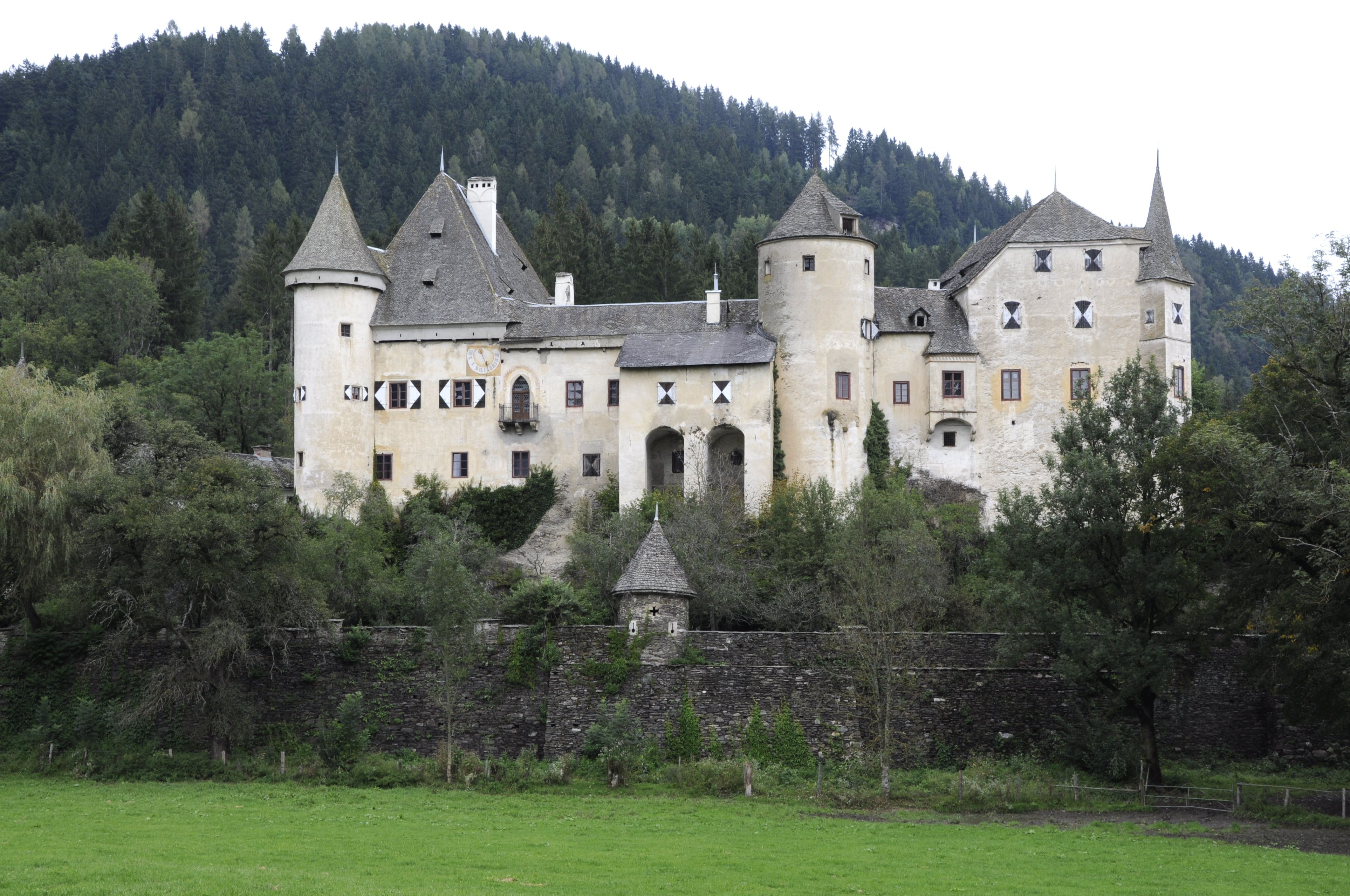 Castle Frauenstein, municipality Frauenstein, district Sankt Veit an der Glan, Carinthia, Austria, EU